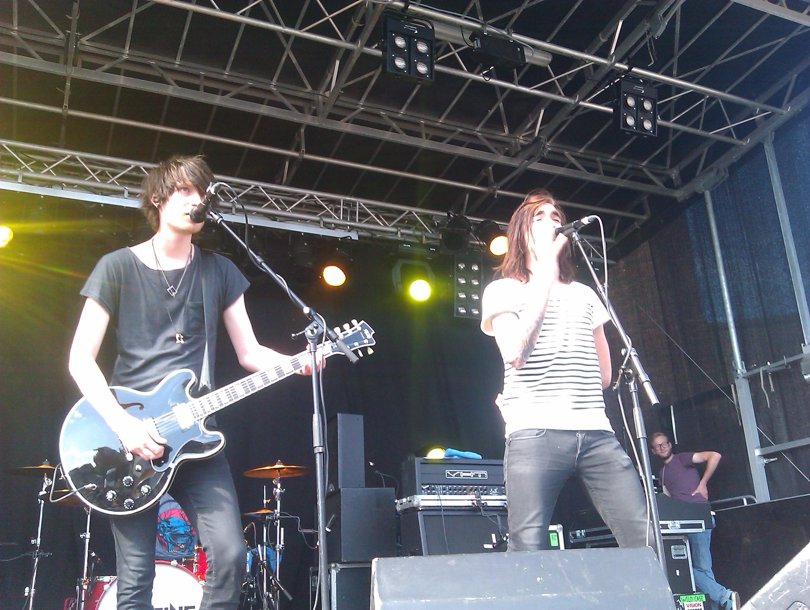 Destine performing at Up2You Jongerenfestival in Zeist, The Netherlands